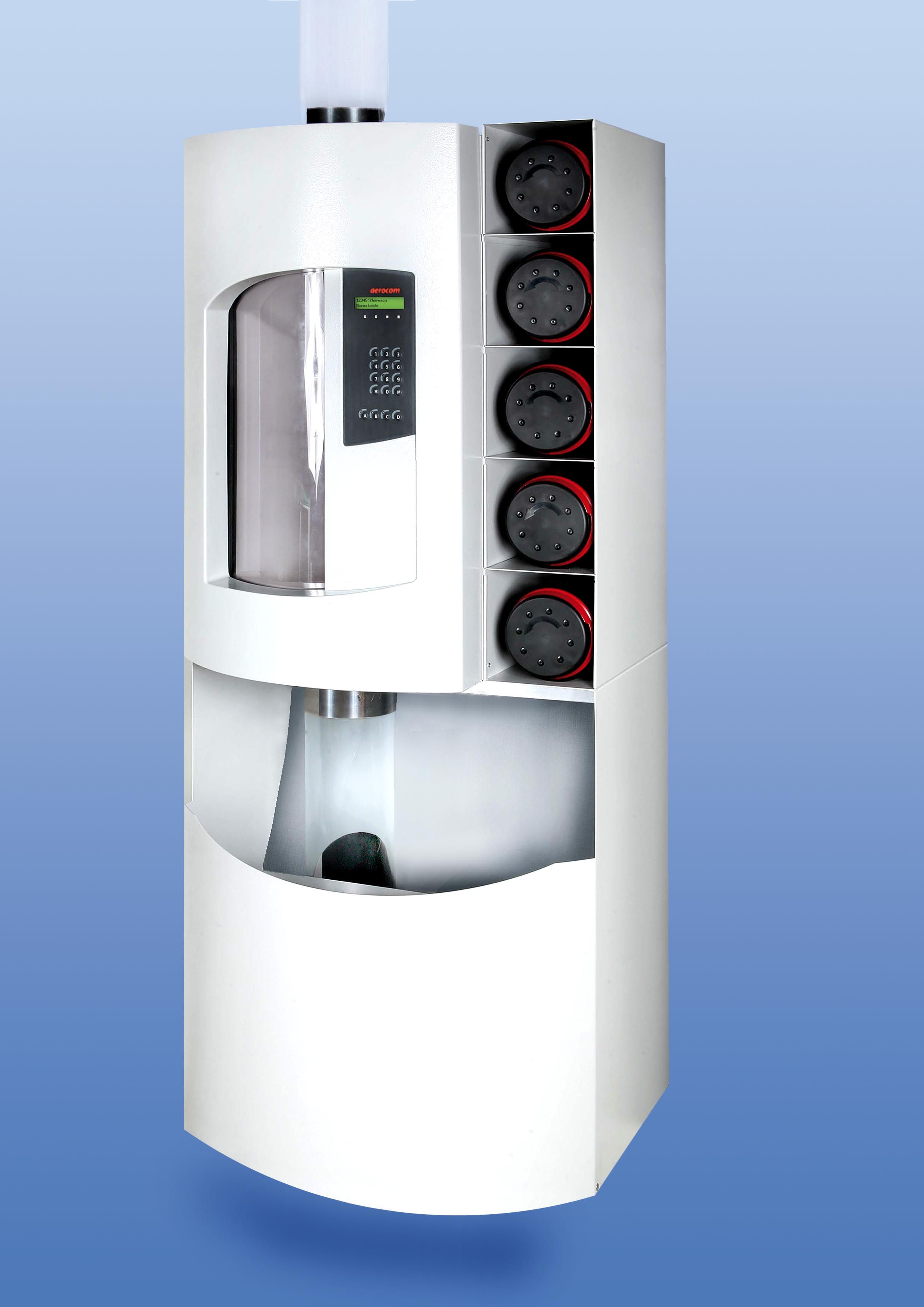 modern station of a pneumatic tube system